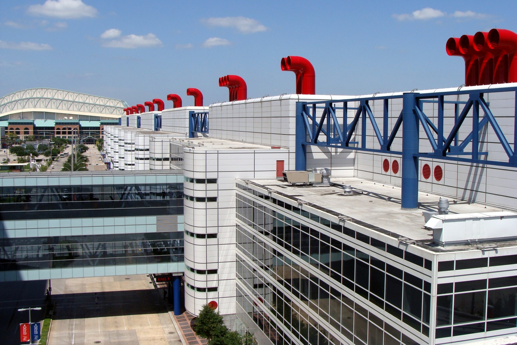 George R. Brown Convention Center